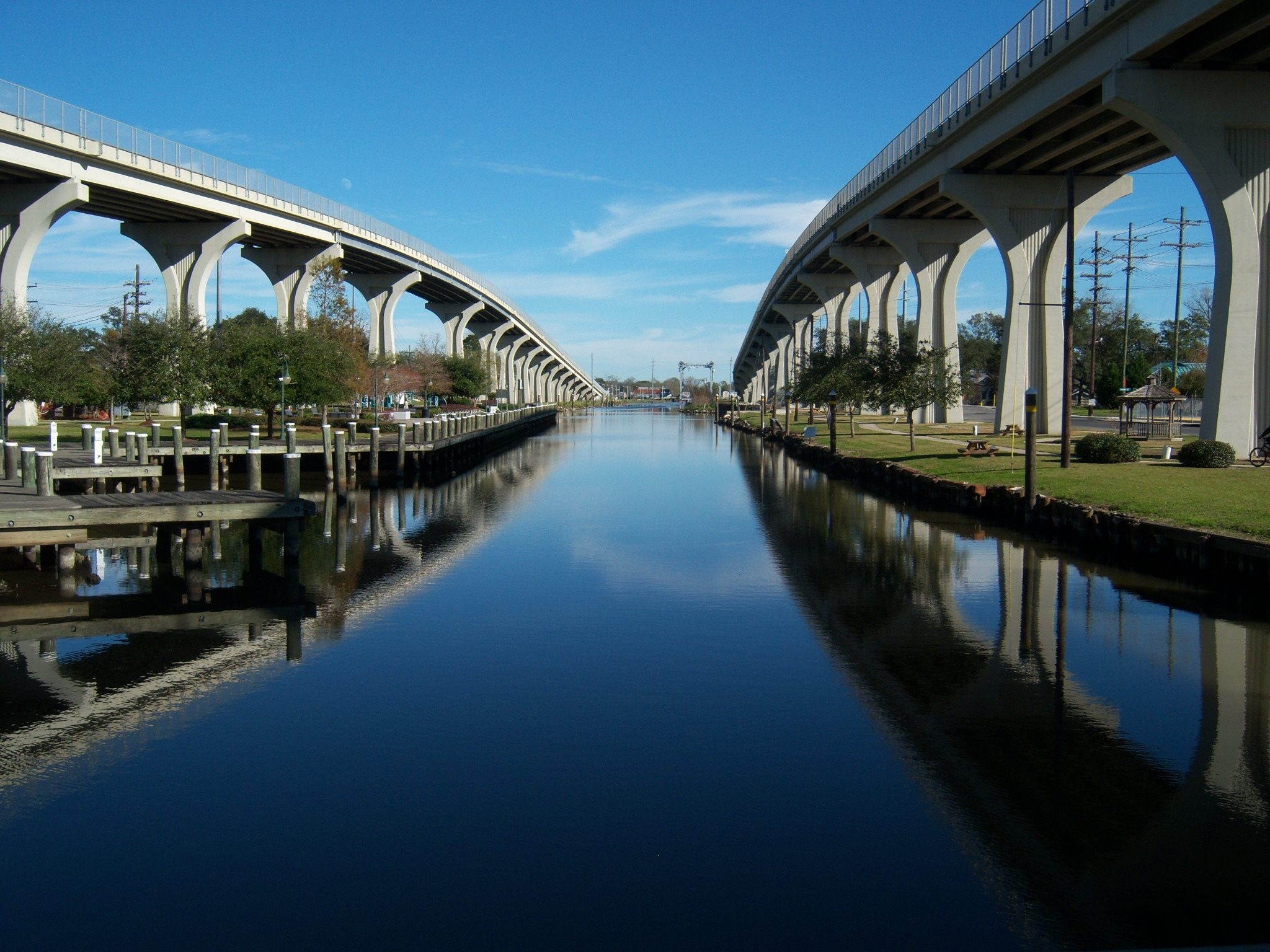 Houma Downtown Marina Park